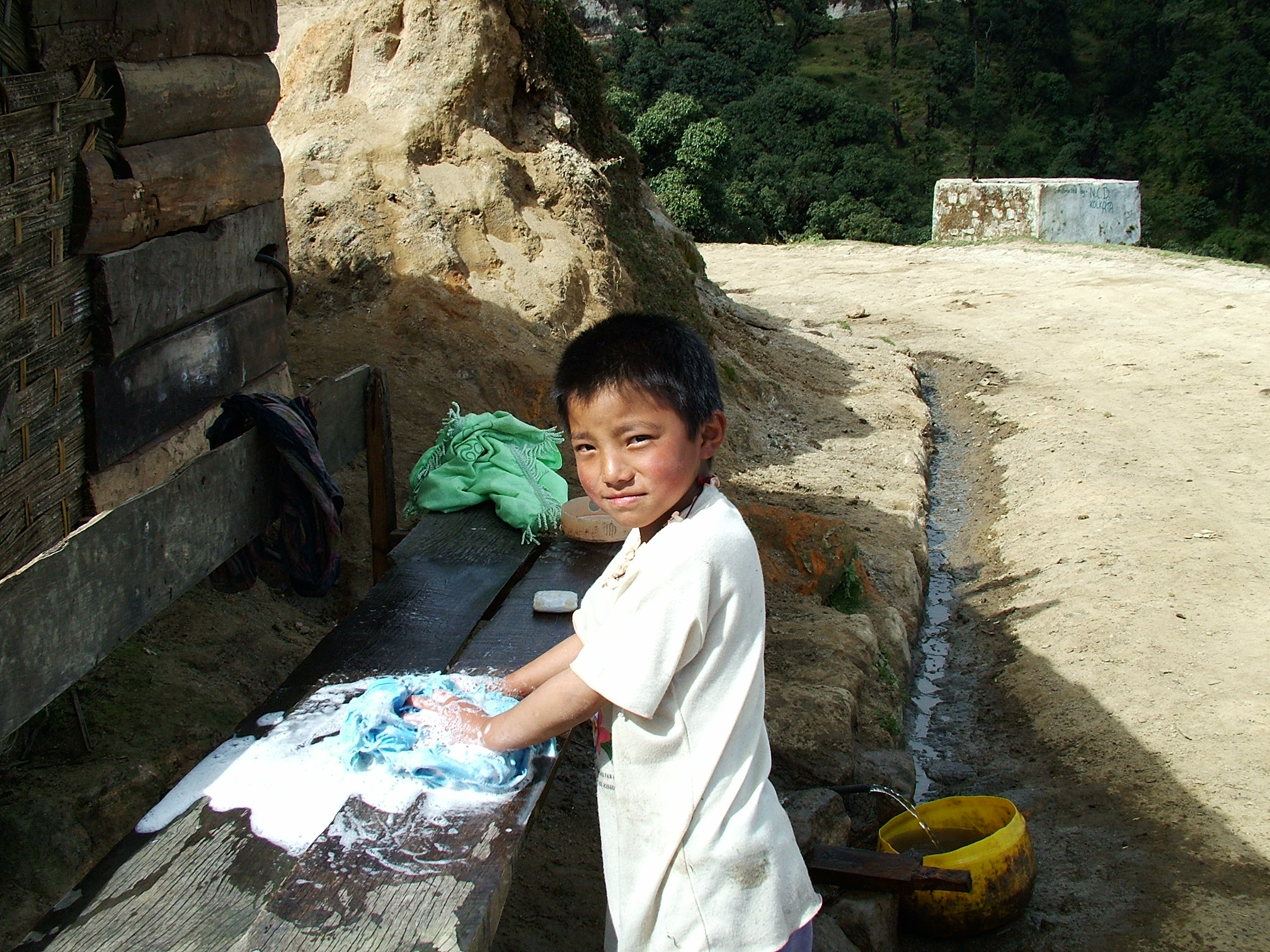 Child at work in Sandakphu, doing some houshold chores.